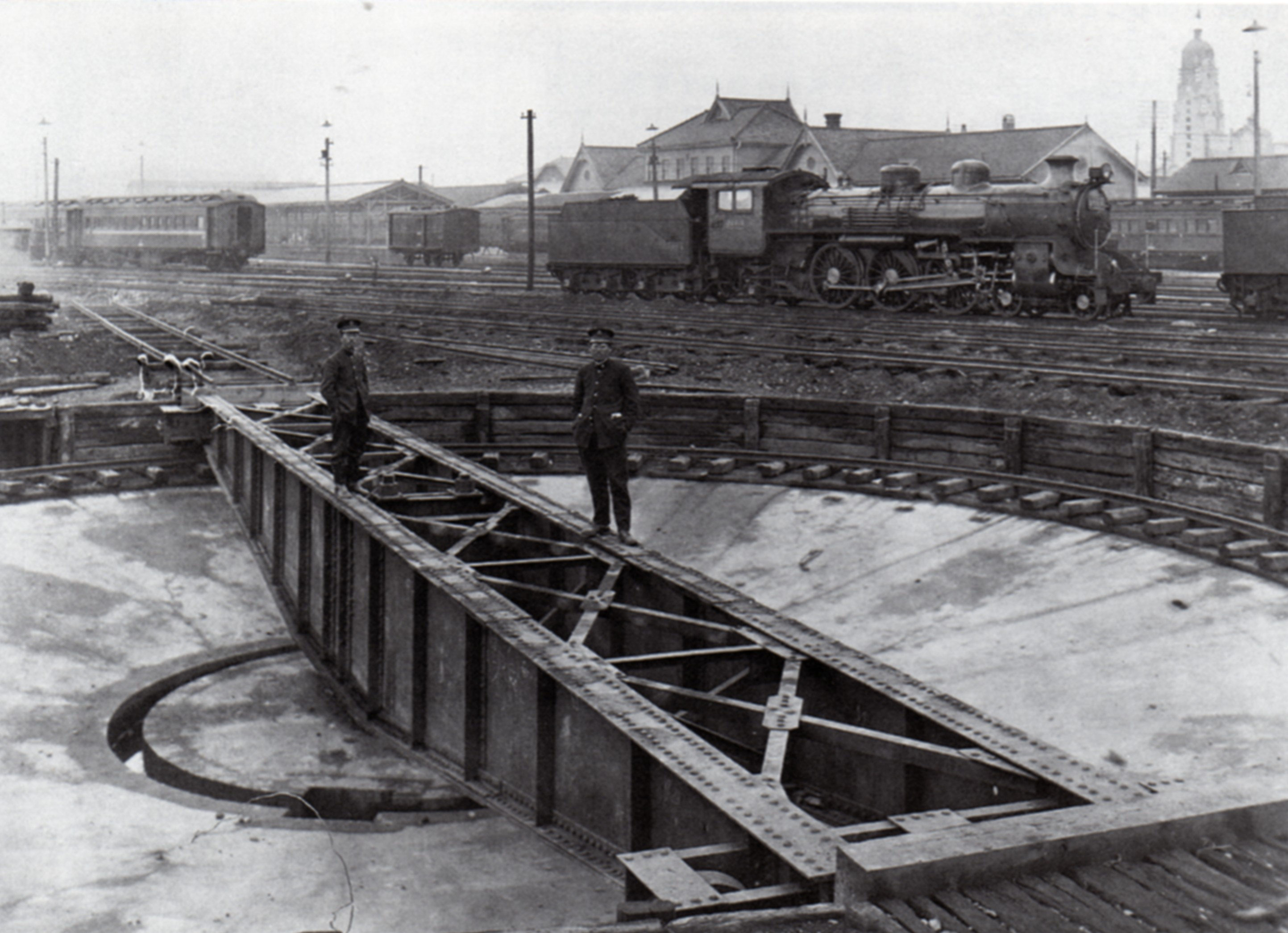 Tracks in Sendai station, Sendai, Miyagi, Japan. The turntable is under construction. The locomotive behind is No. 28918 of type 18900 (later reclassified to type C51).